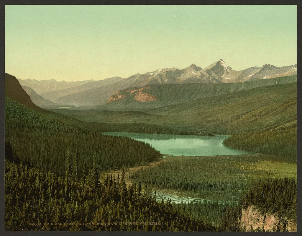 Yoho Park Reserve, B.C., Canada, Van Horn Range & Emerald Lake 1 photomechanical print : photochrom, color. Notes: Copyright 1902 by Detroit Photographic Co. Title from item. Title on inventory list: Emerald Lake & Van Horn Range. Captions for similiar images (LC-D4-14630) lists titles as: [Yoho Park Reserve, B.C., Canada, Van Horn Range & Emerald Lake] and Van Horn Range and Emerald Lake, British Columbia [i.e. Yoho Park Reserve]. Detroit Publishing Co. no. "54002". Forms part of: Photochrom Print Collection. Subjects: Mountains.Lakes & ponds.National parks & reserves.Canada--British Columbia--Yoho National Park. Format: Photochrom prints--Color. Repository: Library of Congress, Prints and Photographs Division, Washington, D.C. 20540 USA, More information about the Photochrom Print Collection is available at Persistent URL: Call Number: LOT 13923, no. 406 [item]